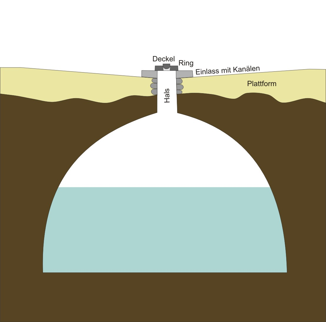 Schematic cross-section of a chultun, cistern of preColumbian Maya culture in Yucatan, Mexico